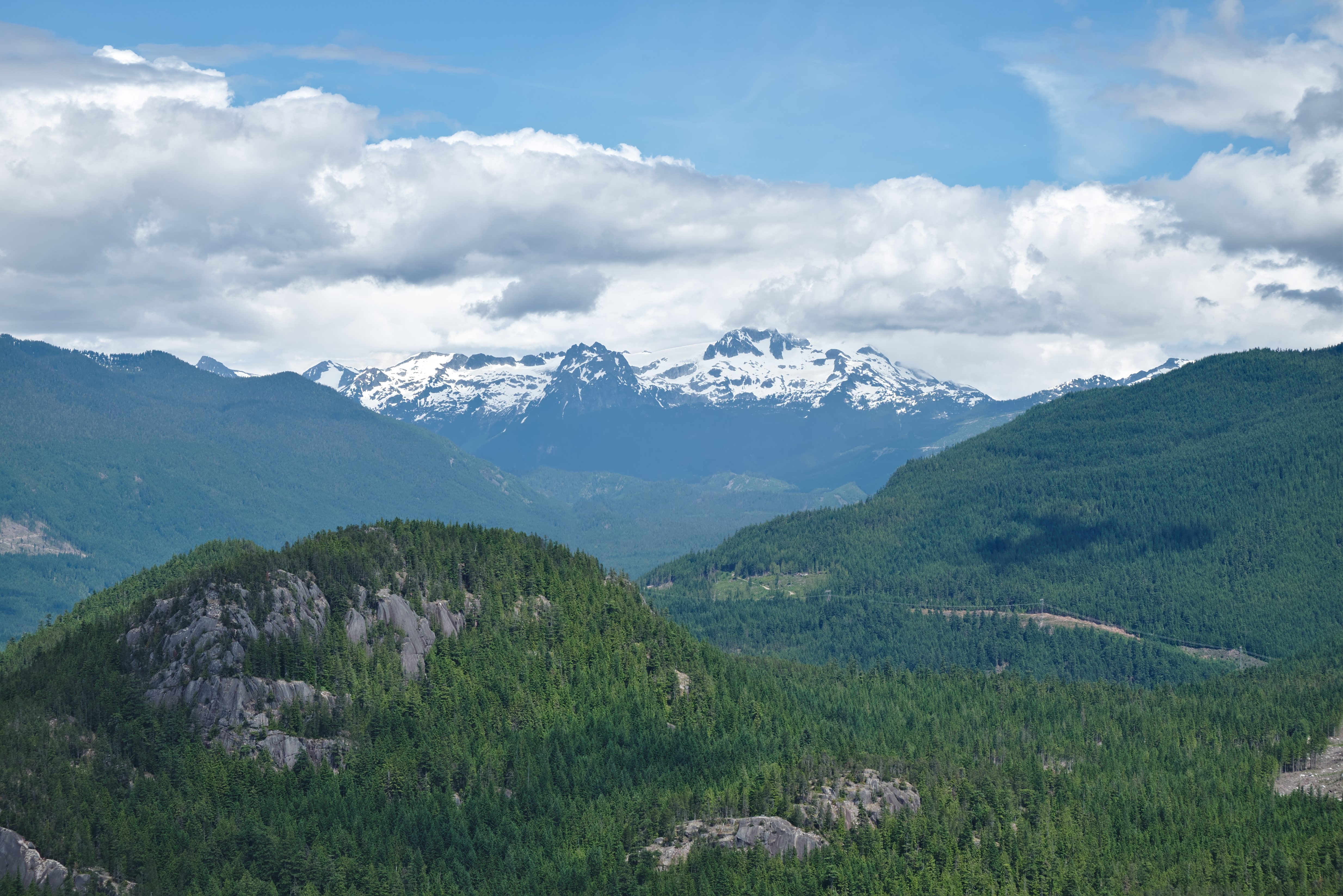 View from third peak (North Summit) of the chief hike at Stawamus Chief Provincial Park, BC This photo was taken in a protected area in Canada, Wikidata item Stawamus Chief Provincial Park (Q1277588)